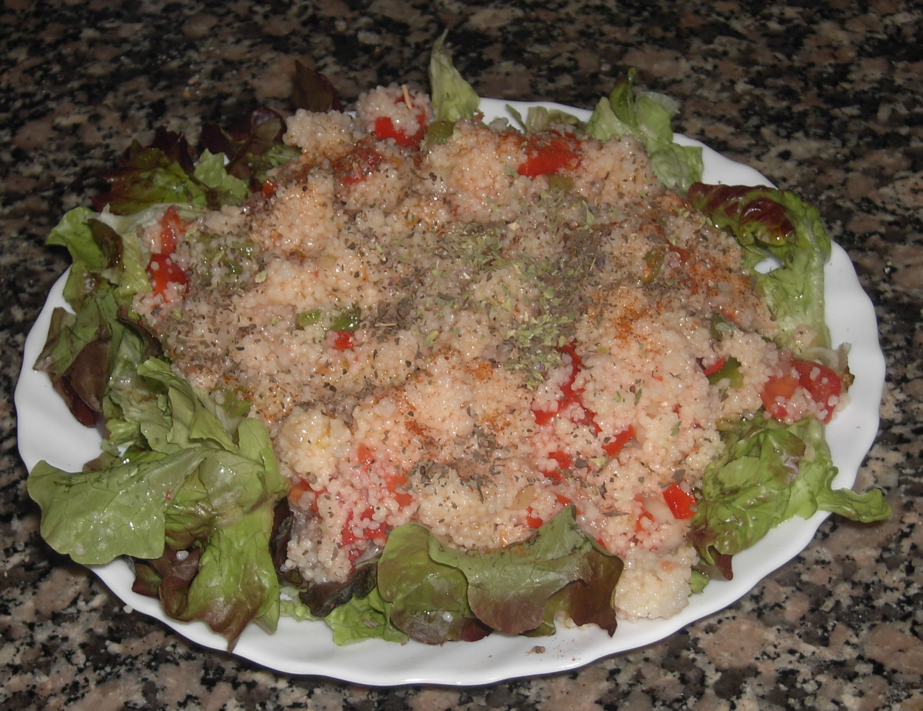 Tabbouleh